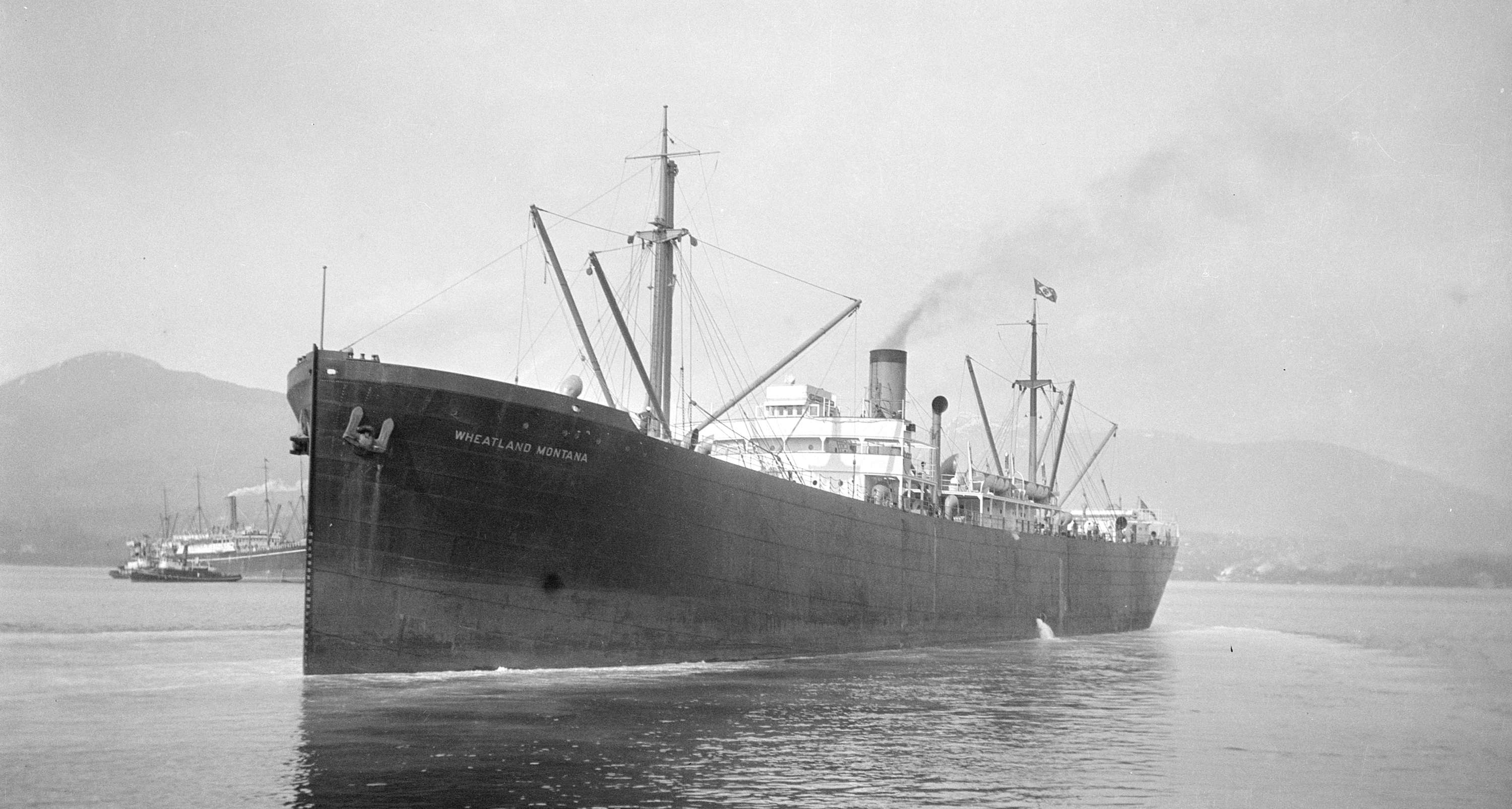 SS Wheatland Montana in Vancouver, mid-1930s